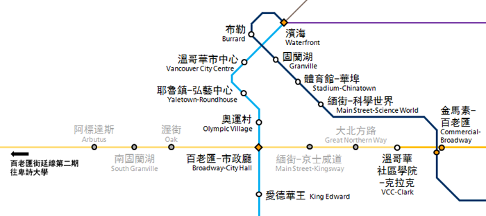 Map of the planned Vancouver SkyTrain Millennium Line Broadway Extension Phase 1 (with stations). 中文（香港）: 溫哥華架空列車千禧線擬建百老匯街延線路線圖（連車站）。